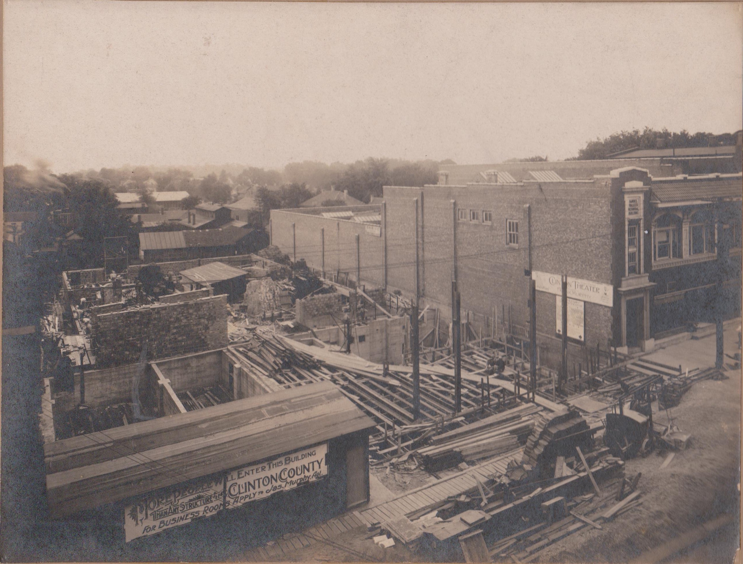 One of the first stages of the construction of the Murphy in 1916.